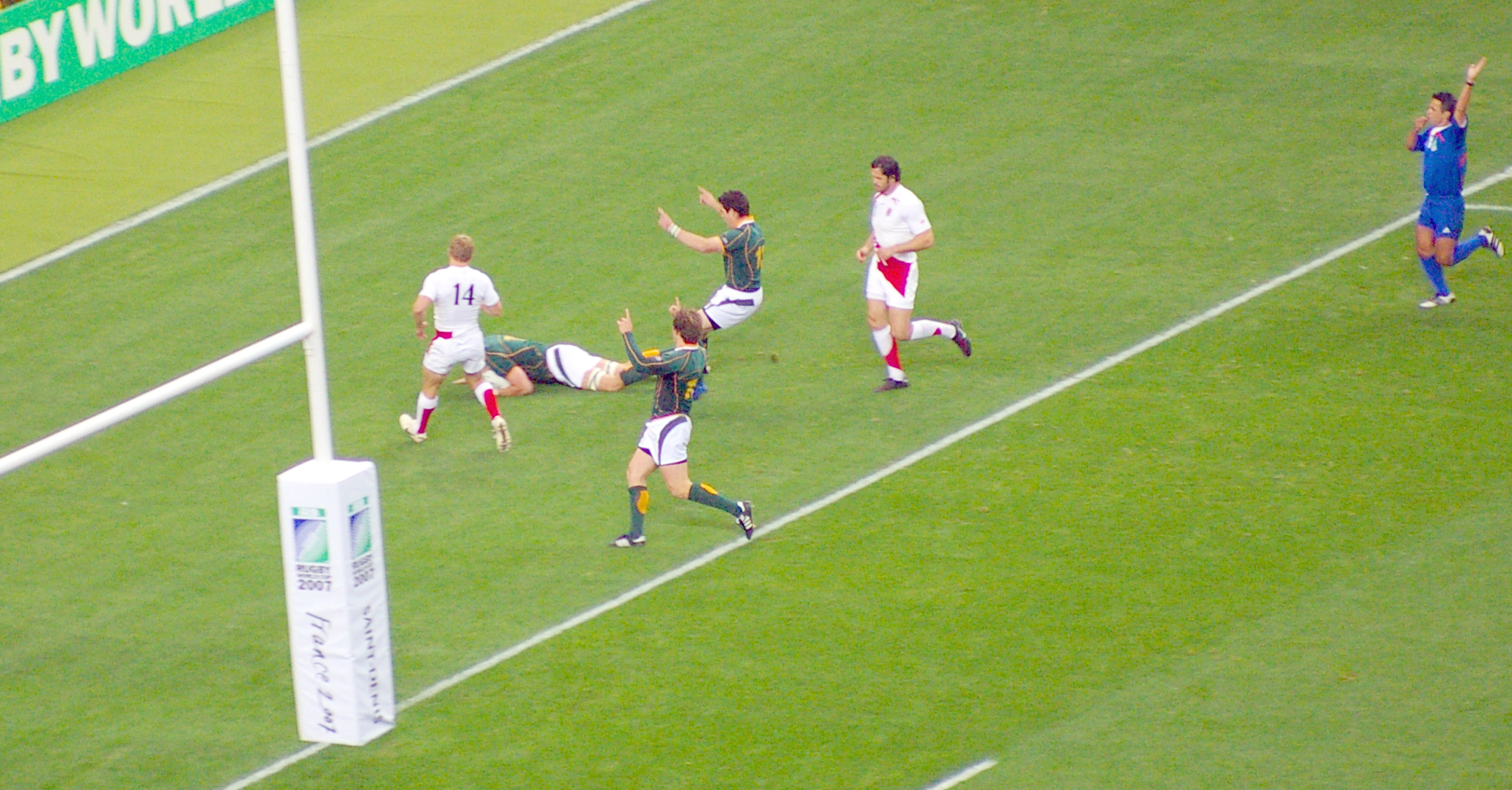 England - South Africa Rugby World Cup 2007 Paris. Stade de France